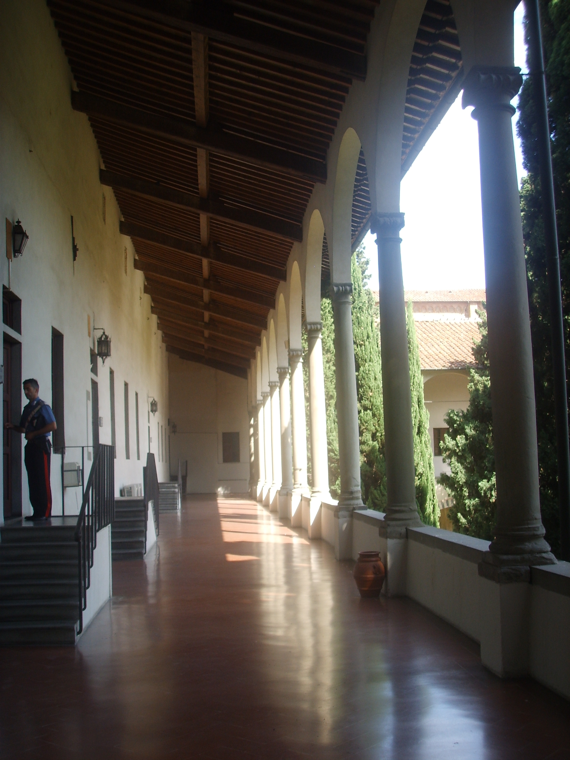 Chiostro Grande in santa Maria Novella church first floor corridor in Florence, Italy